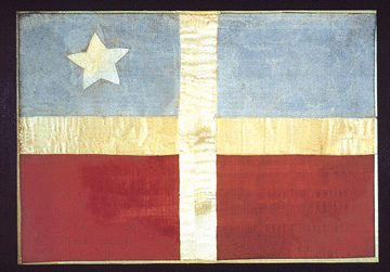 19th century Lares flag; permanent collection of Museum of History, Anthropology and Art, University of Puerto Rico, Río Piedrad Campus